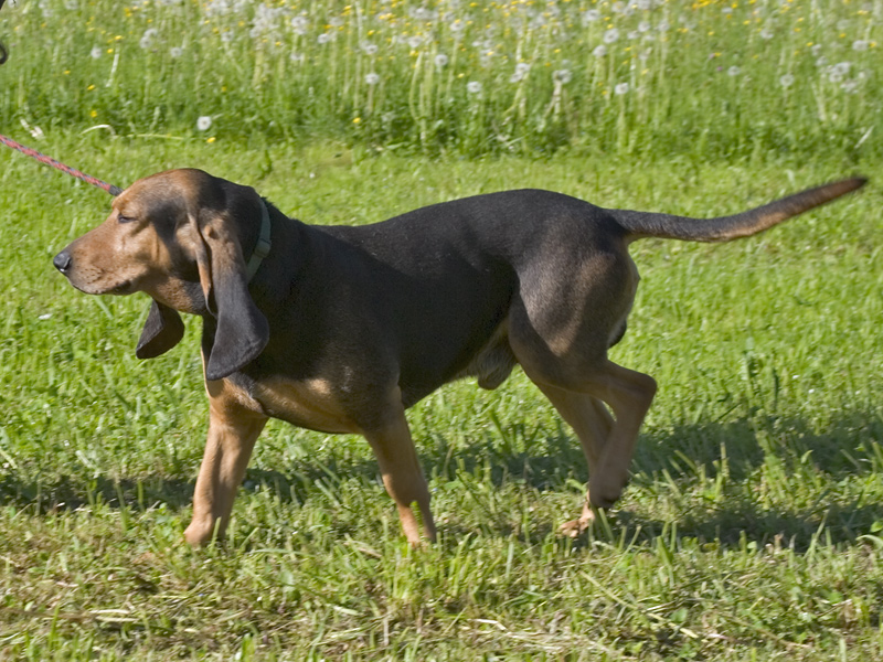 This dog is a Hound from Switzerland: Jura Laufhund.